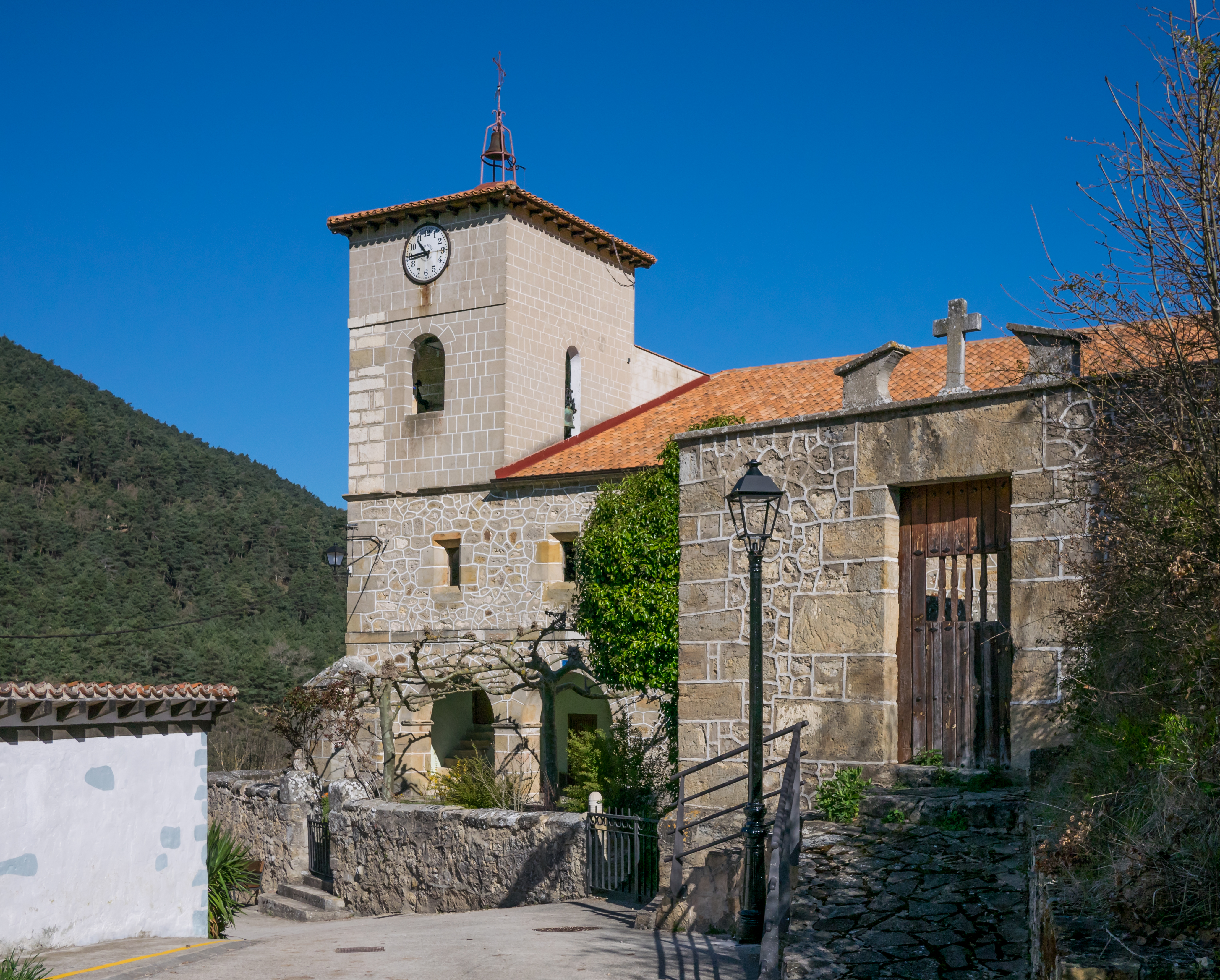 Church of Barrio. Álava, Basque Country, Spain